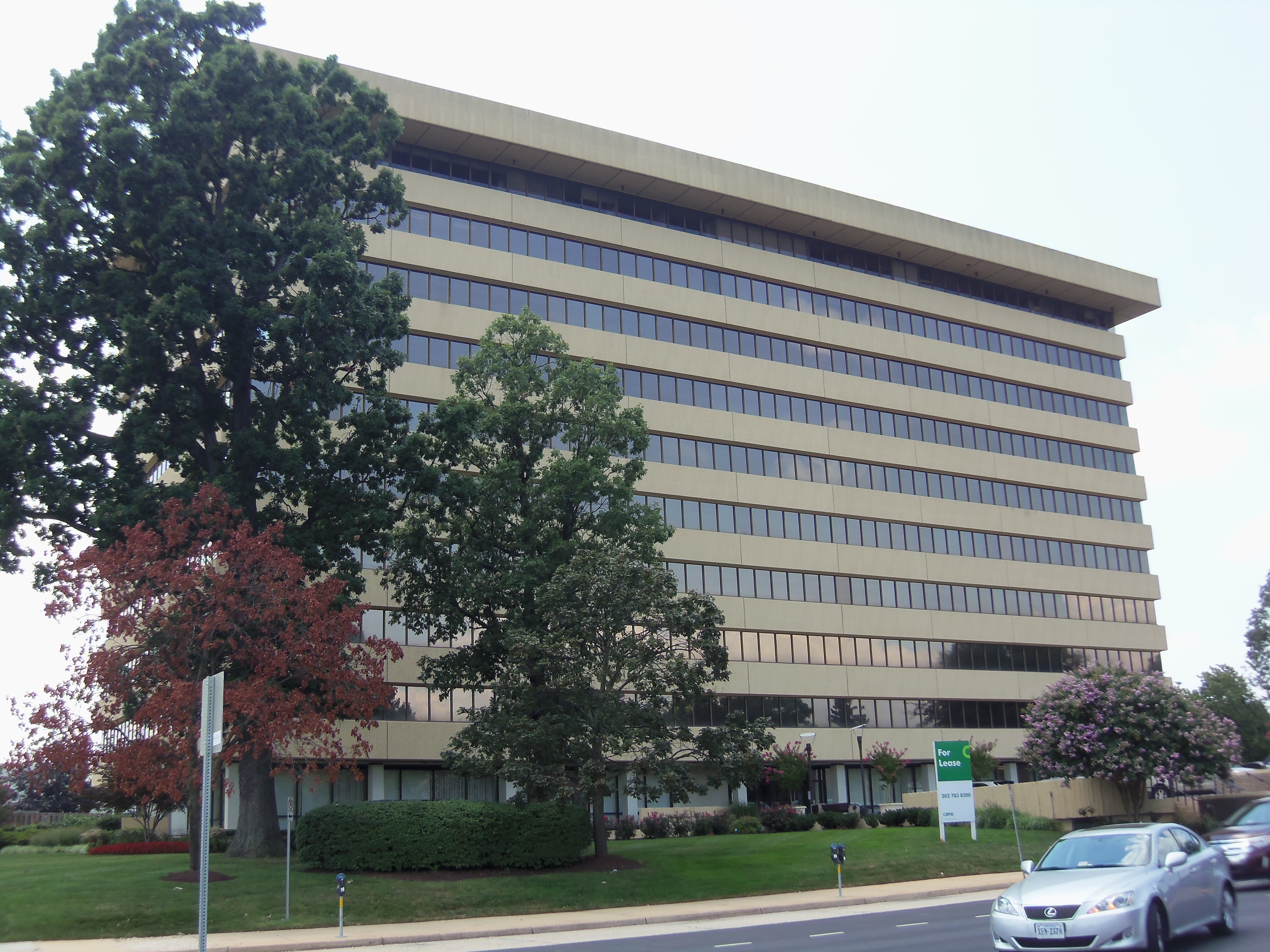 200 North Glebe, the headquarters of the Catholic Diocese of Arlington in Arlington County, Virginia. It also houses other tenants.